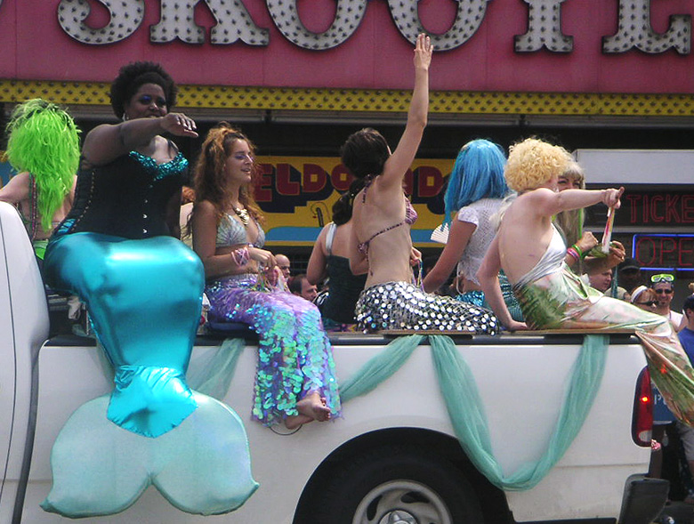 Coney Island Mermaid Parade, 2004, Brooklyn.